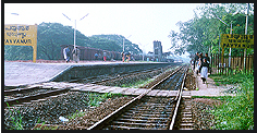 Payyannur Railway Station.